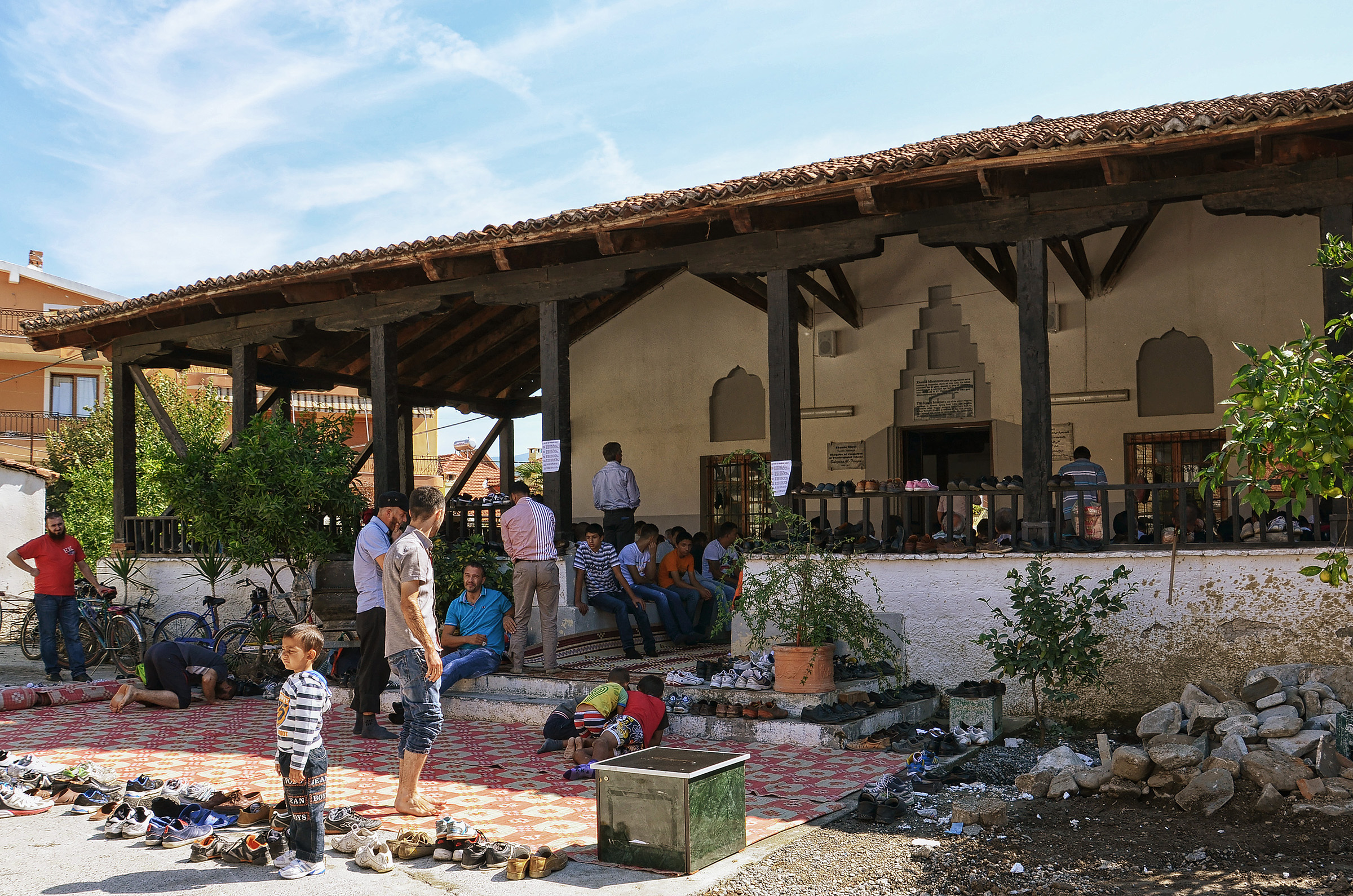 People gathering for prayer at the King's Mosque in Elbasan, Albania